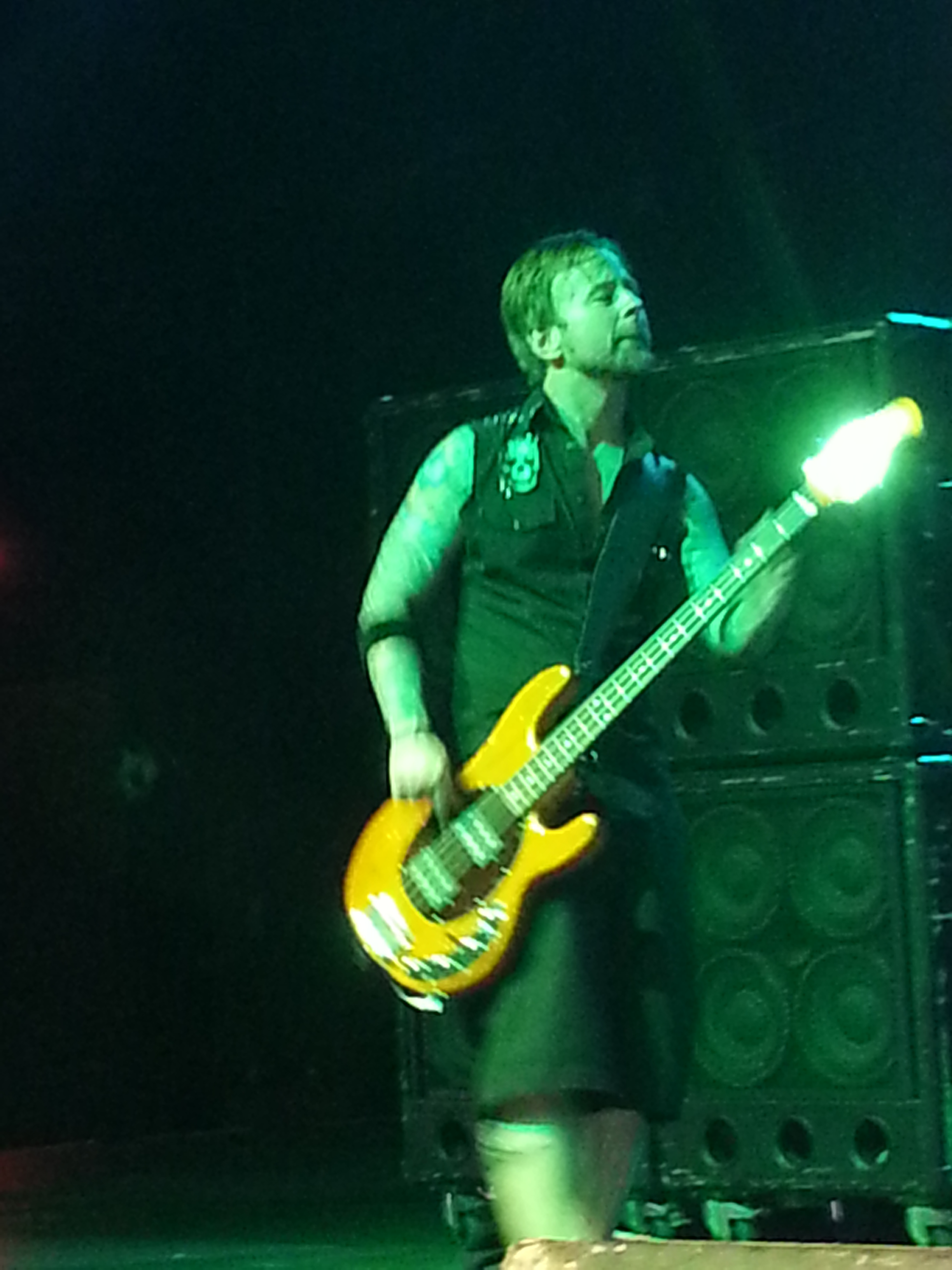 Stevie Benton performing with Drowning Pool in 2014